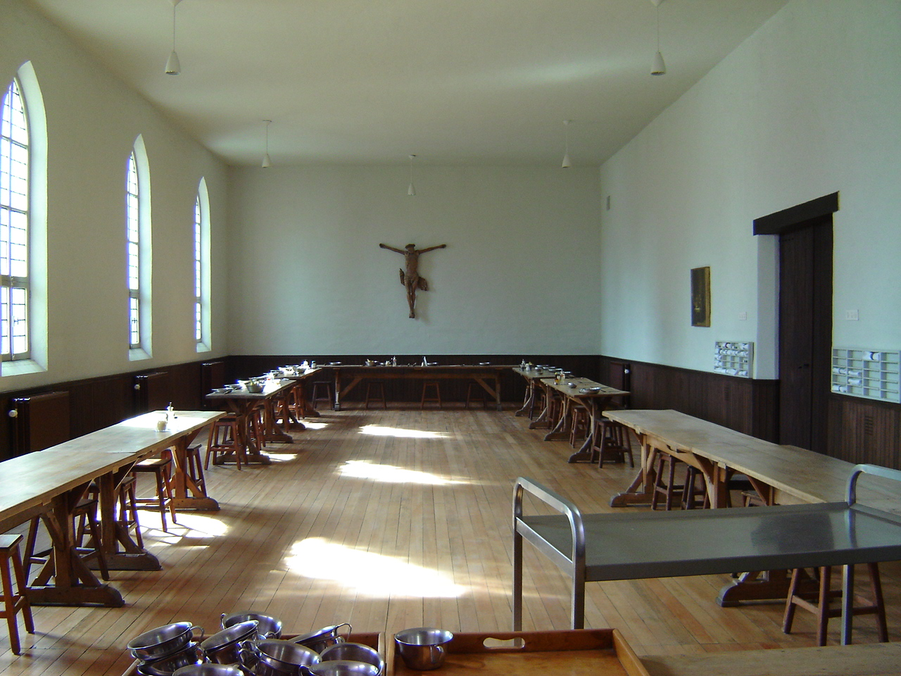 Abdij Maria Toevlucht Zundert, The Netherlands